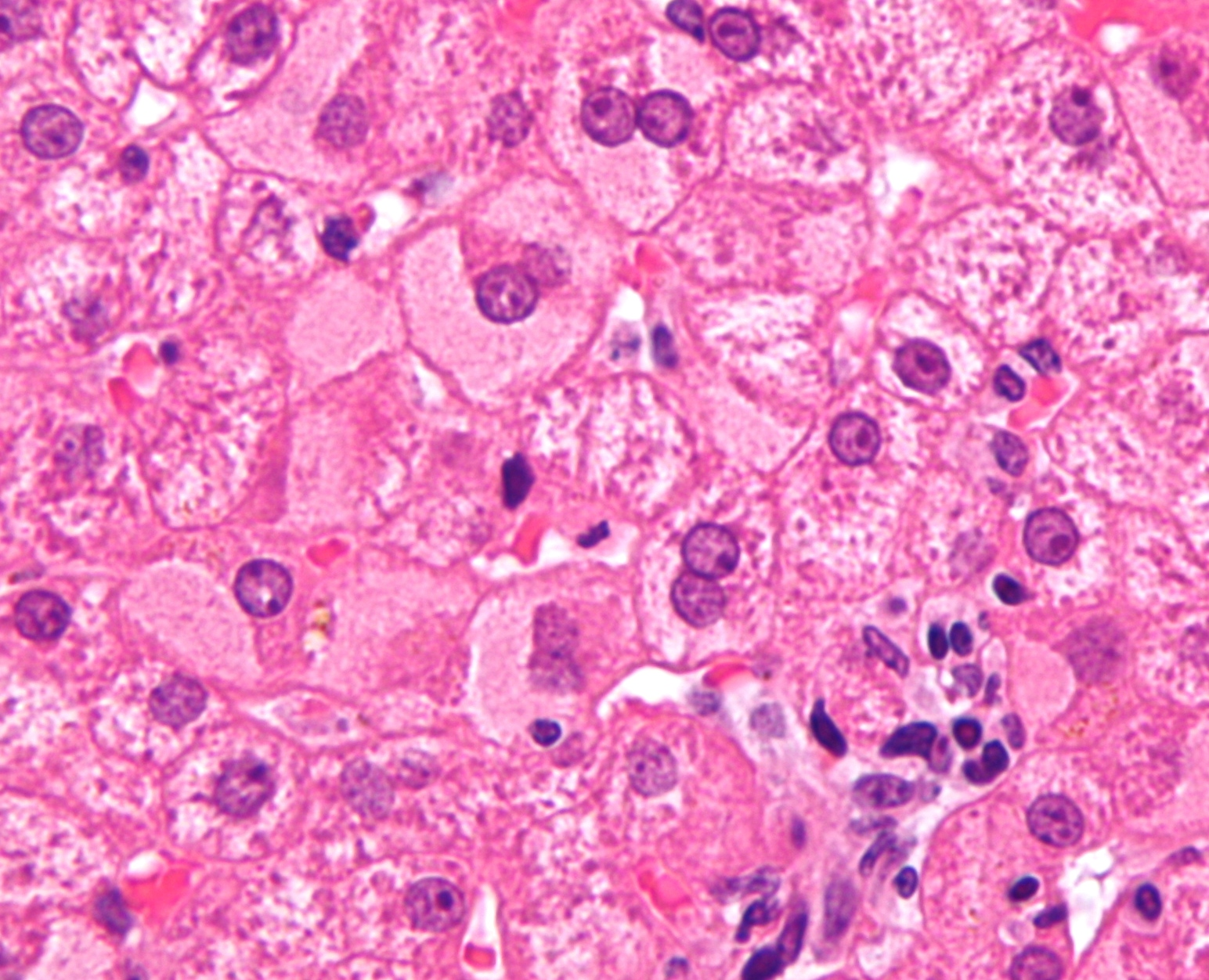 High magnification micrograph of ground glass hepatocytes, as seen in a chronic hepatitis B infection with a high viral load. Liver biopsy. H&E stain. Related images uncropped version of this image. intermediate magnification version. cropped version - different case. uncropped version - different case. intermediate magnification view - different case.